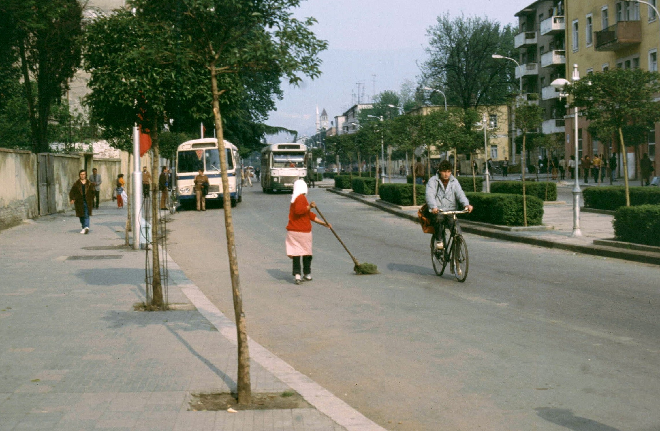 The Rruga e Kavajës-street in May, 1991